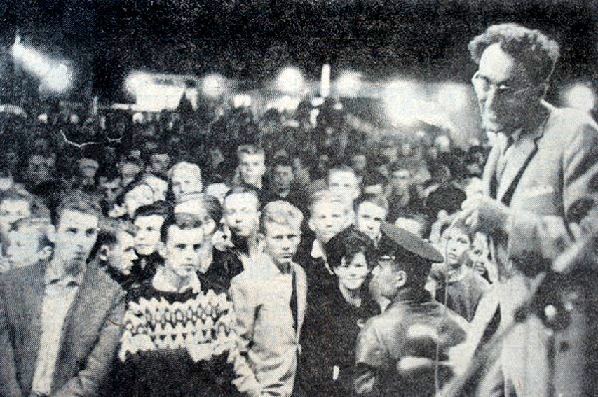 Swedish pentecontalist evangelist and singer Målle Lindberg